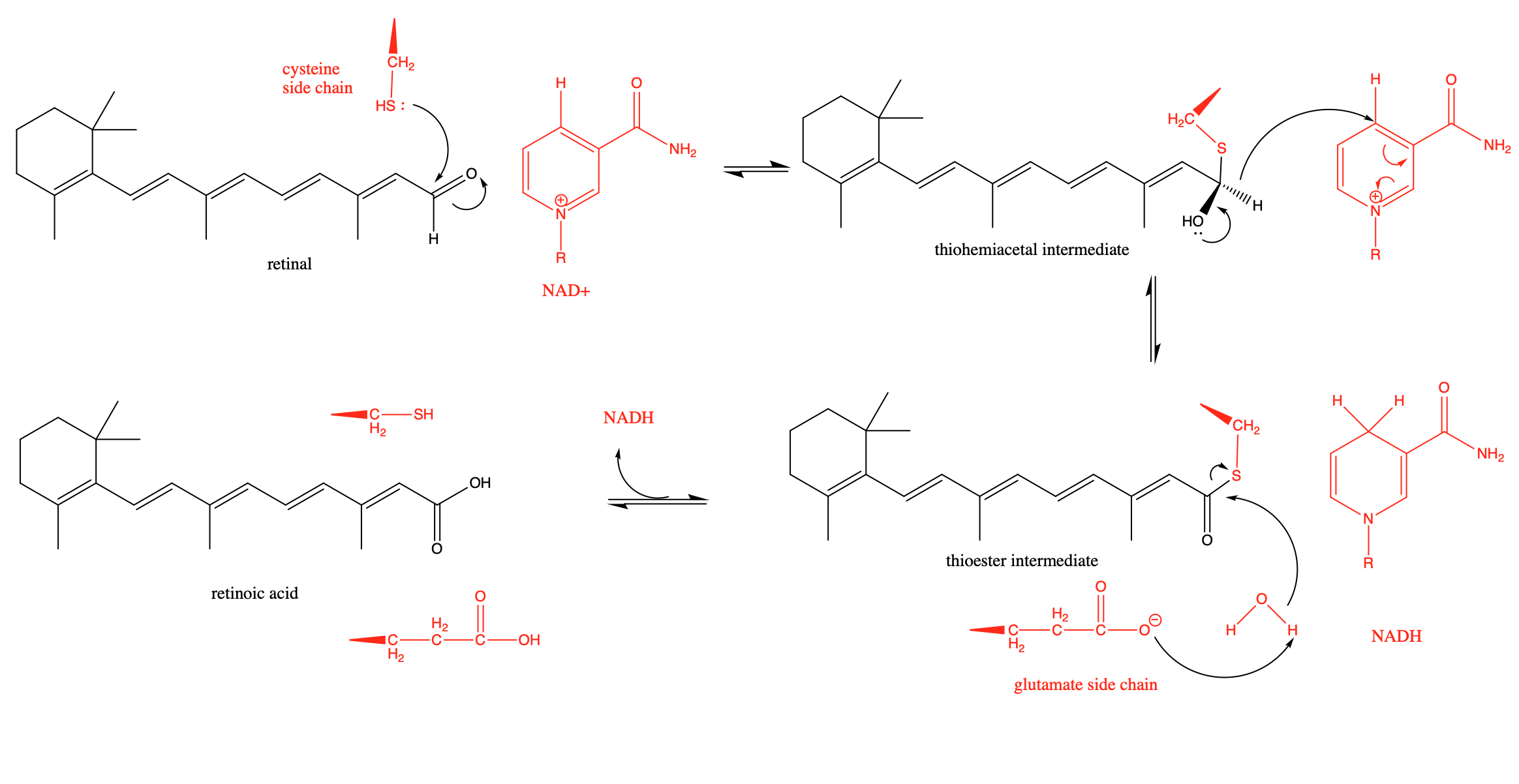 This figure shows the general mechanism of retinal dehydrogenase enzymes as based off work by Abriola, D.P. et al. and Kitson, T.M et al.